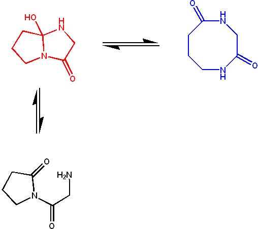 Equilibration of N-(2-aminoacetyl)-2-pyrrolidone between its cyclol (red) and bislactam macrocycle (blue) forms. The open form (black) is neglibly populated. This diagram is modeled after (but not identical to) Figure 1 in Guedez T, Núñez A, Tineo E and Núñez O. (2002) "Ring size configuration effect and the transannular intrinsic rates in bislactam macrocycles", _J. Chem. Soc., Perkin 2_, 2078-2082. This diagram was made by me on 8 November 2006 using ChemDraw, and I hereby release it under the GFDL.